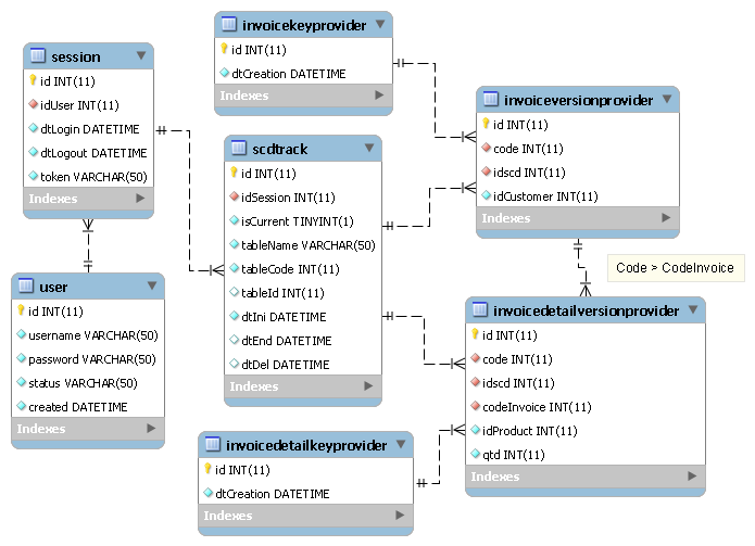 An SCD model